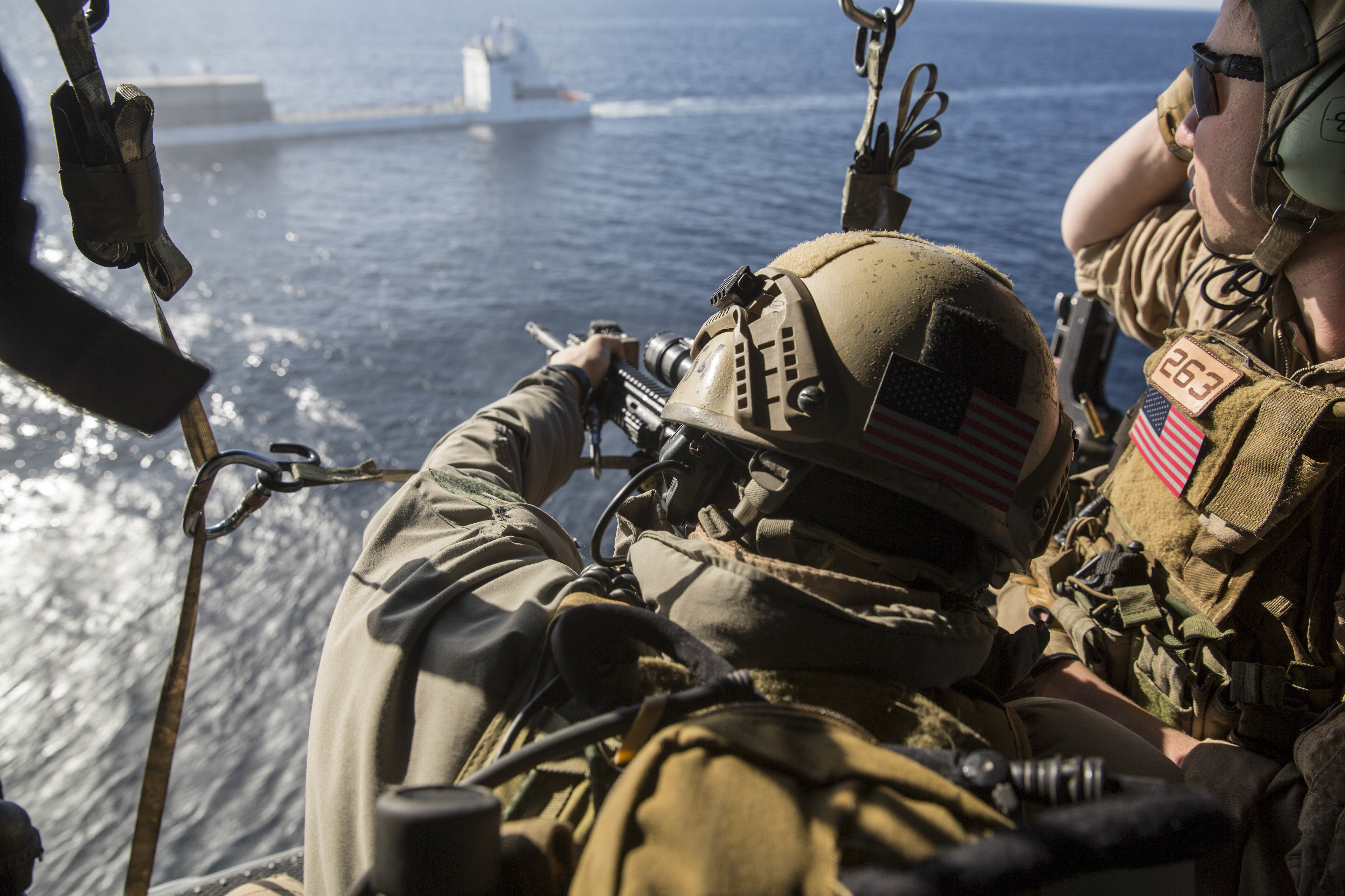 U.S. Marines with the 15th Marine Expeditionary Unit’s Maritime Raid Force aim at a target from a helicopter during maritime interoperability training off the coast of Camp Pendleton, Calif., Jan. 13, 2015. MIT prepares the MRF for their upcoming deployment by enhancing their combat skills and teaching them techniques for boarding and taking over vessels. (U.S. Marine Corps photo by Cpl. Anna Albrecht/Released)